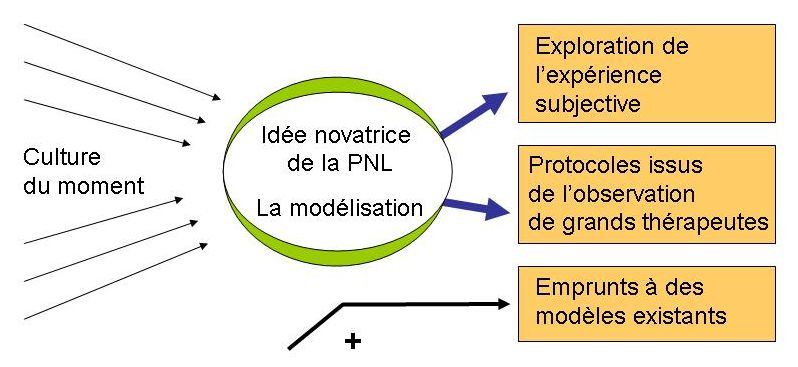 Global schema for NLP.